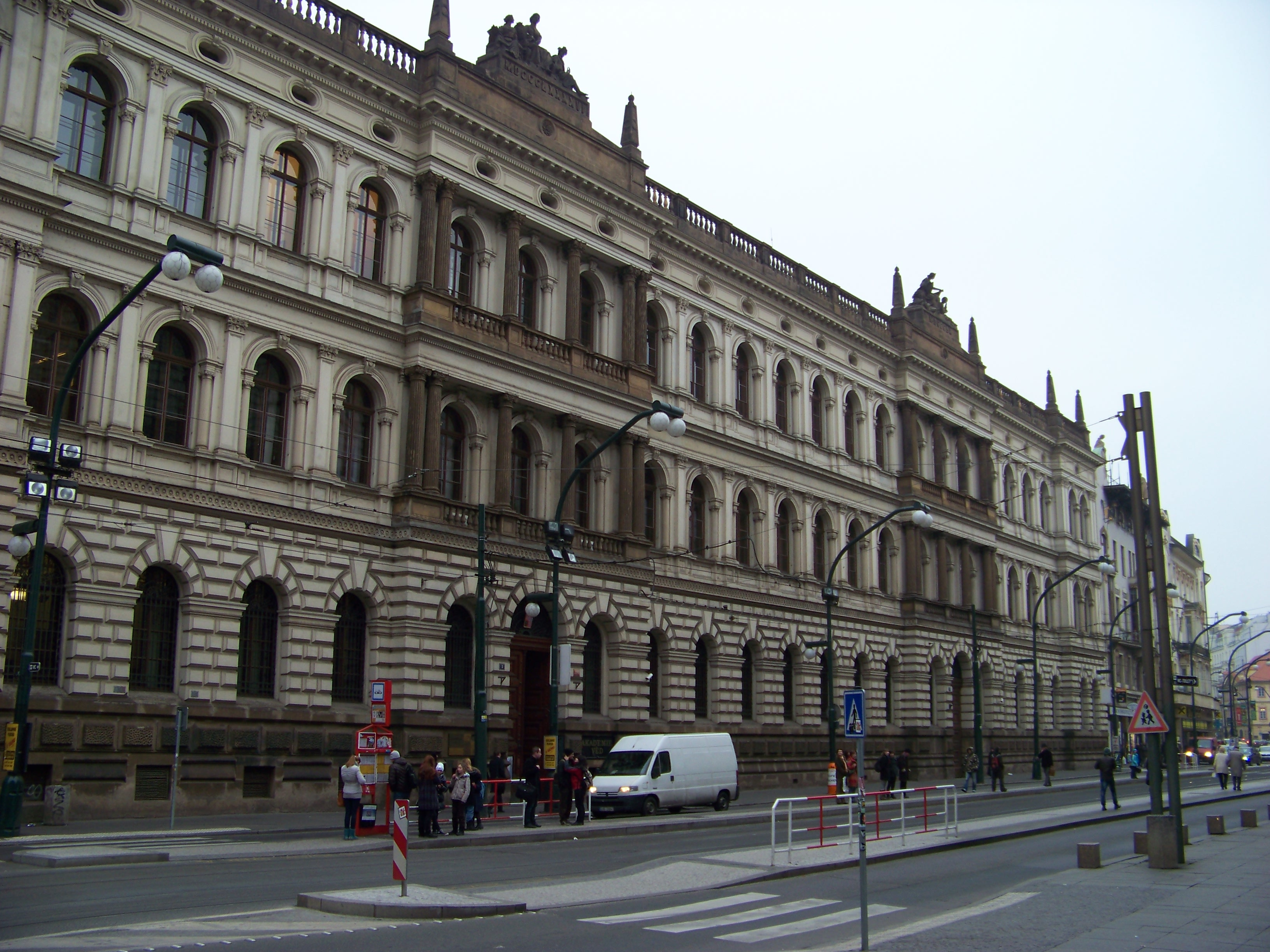 Prague-Old Town, the Czech Republic. Národní street, Academy of Sciences.